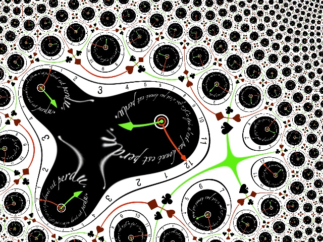 This picture represents the result of a conformal transformation of the complex plane tiled by a clock surrounded by the French phrase «Ce qui n'est pas donné est perdu» («What is not given is lost»). Here, the conformal map is a 4th degree polynomial.